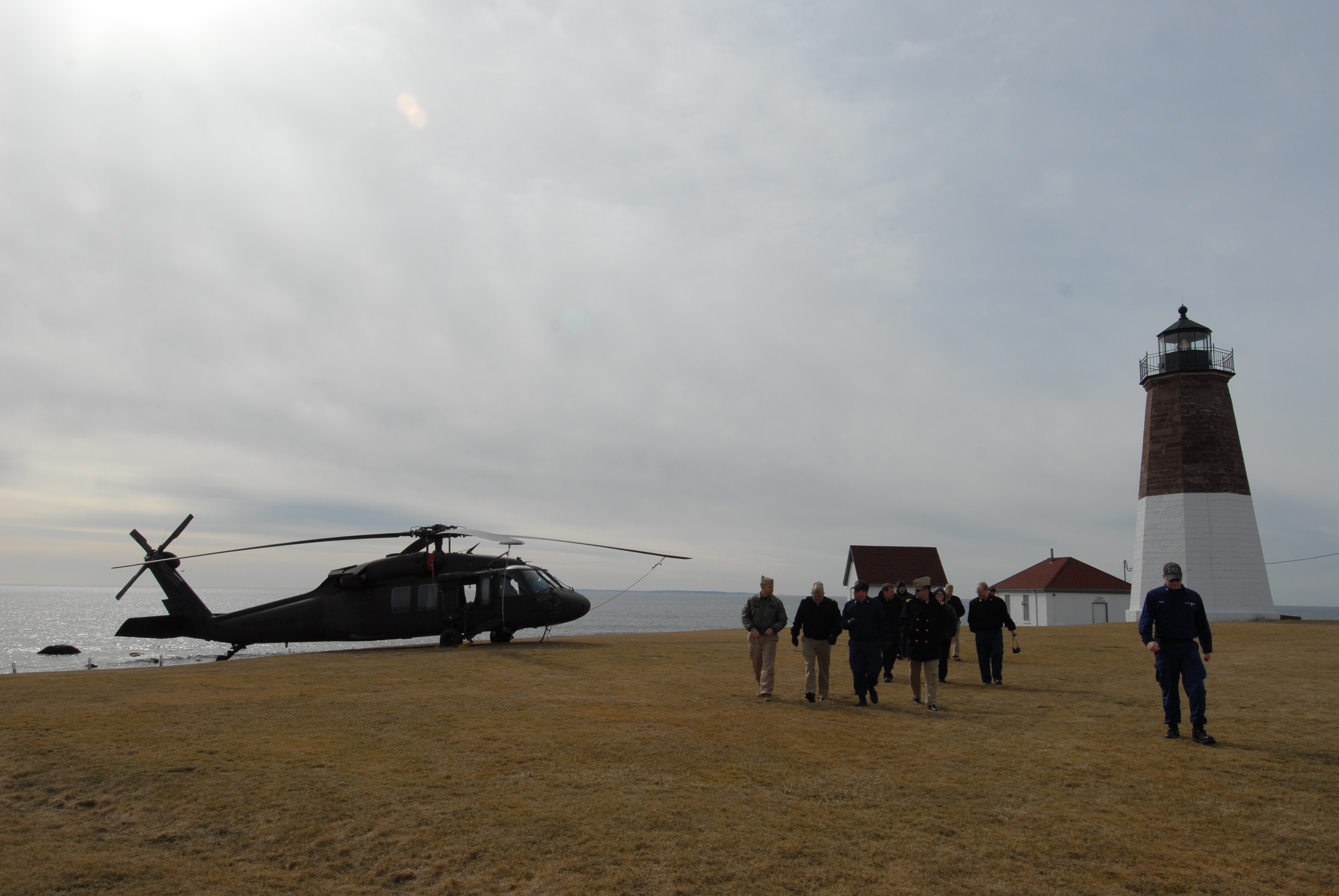 NARRAGANSETT, R.I. - Personnel from U.S. Navy Operational Support Center Newport, R.I., get a tour of Coast Guard Station Point Judith here Wednesday, Feb. 25, 2009. A Black Hawk helicopter from A Company 1-126 Aviation of the Rhode Island Army National Guard based in Quonset, R.I., brought the support center's sailors of the quarter, sailor of the year and blue jacket of the year to the Coast Guard station. (Coast Guard photo by Petty Officer 2nd Class Lauren Jorgensen)